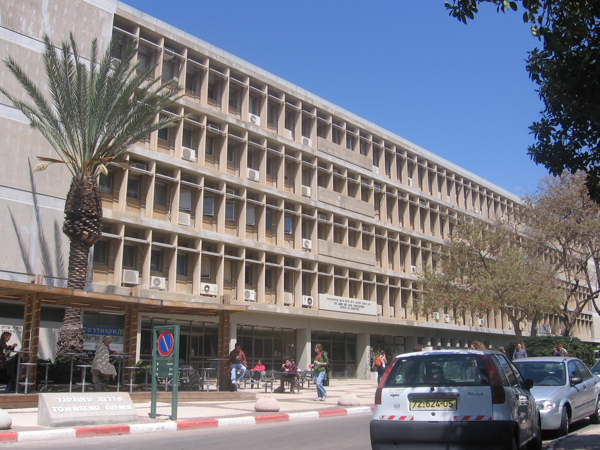 Constantiner building of the school of education in Tel Aviv University (TAU).